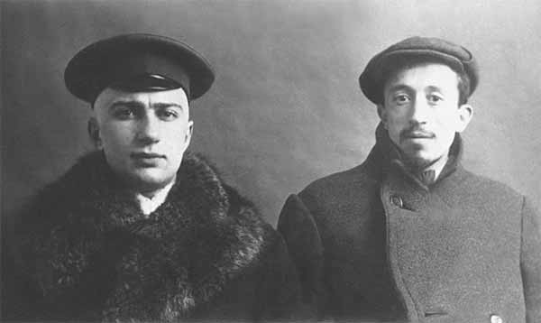 Ilia Zdanevich and Mikhail Le Dentu (photo by Niko Pirosmani, ca. 1916)